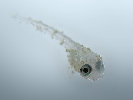 A 15-day old Siamese fighting fish (Betta splendens) with a severe infestation of Oodinium sp. parasites (Velvet disease, also known as dust disease).